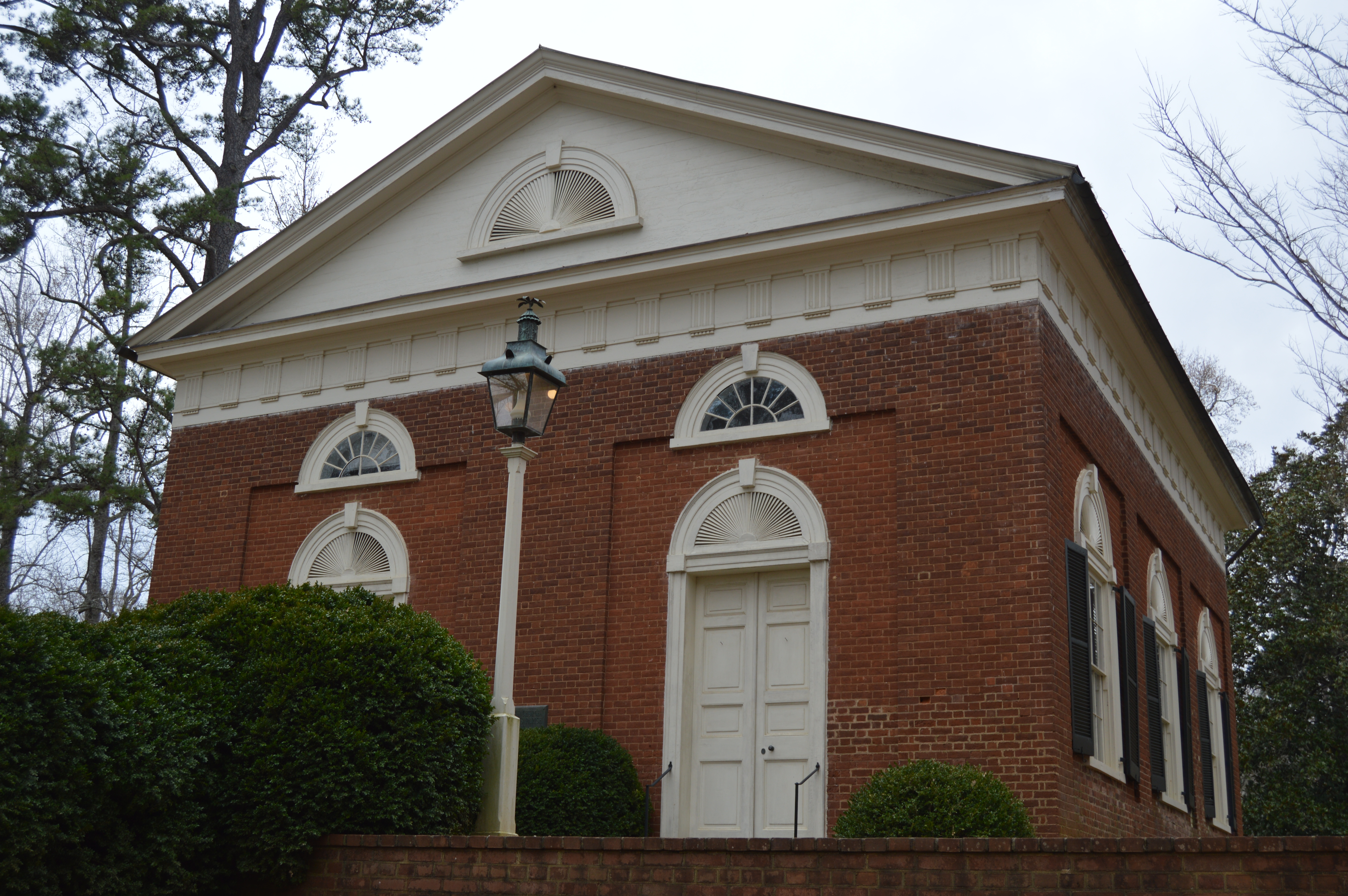 Front and northern side of St. Anne's Episcopal Church, located on Glendower Road southeast of Keene in Albemarle County, Virginia, United States. Built in 1831, it is listed on the National Register of Historic Places.